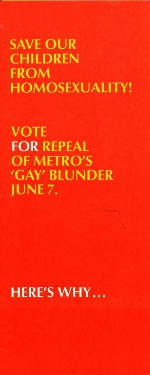 Brochure used by Save Our Children in their campaign to repeal Dade County ordinance 77-4